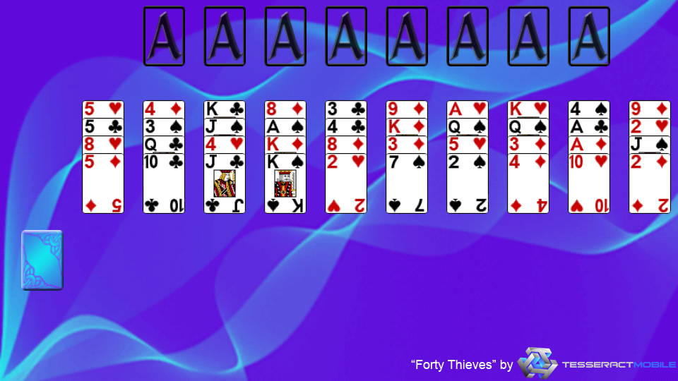 This image is a screenshot of the solitaire game "Forty Thieves". More information about this game or this photo can be found on this website